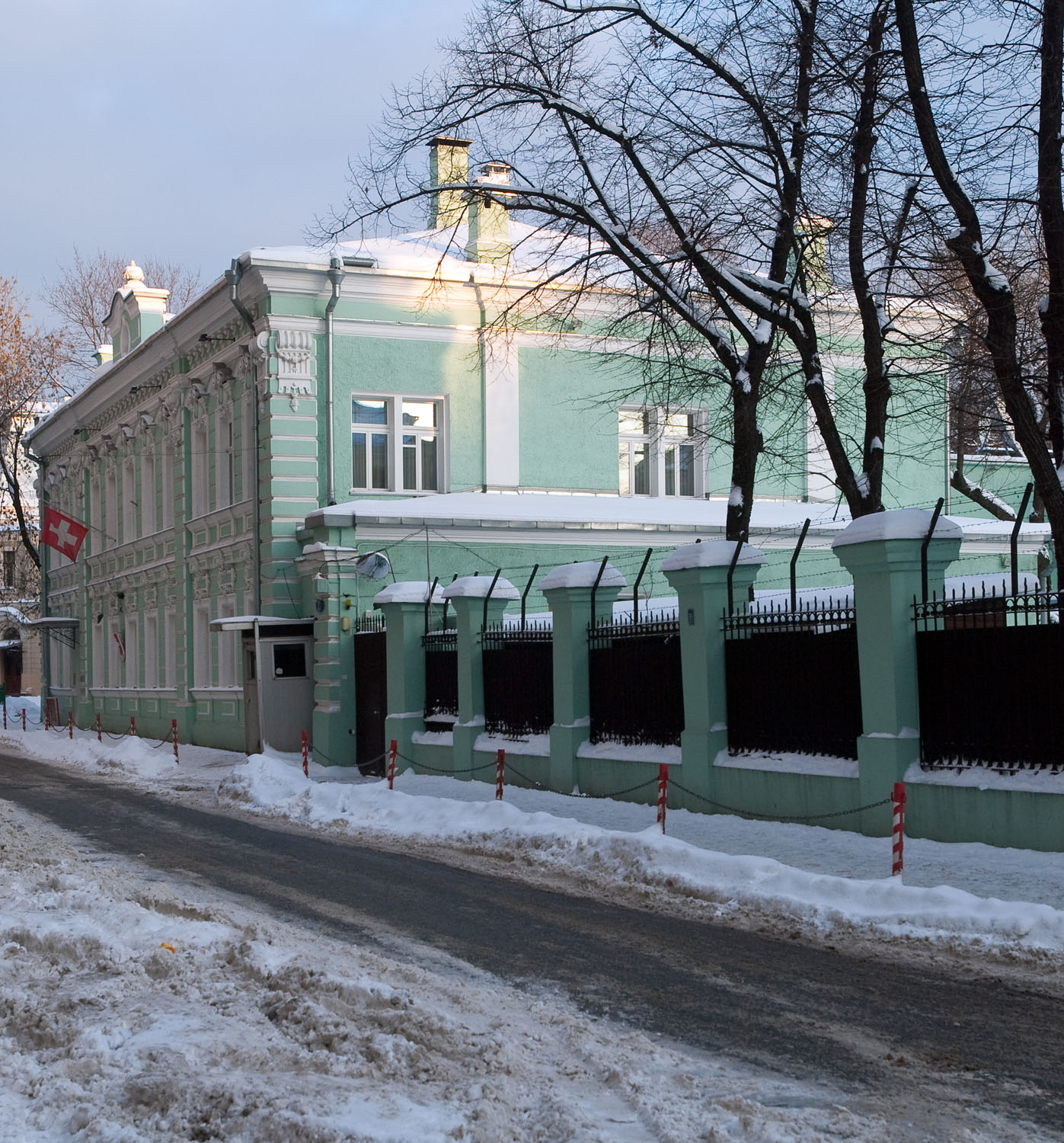 Swiss embassy, Moscow.